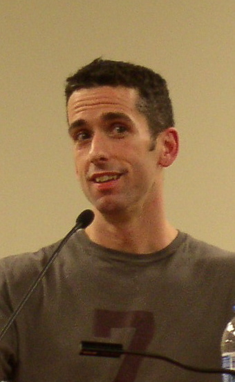 Dan Savage speaking at Bradley University in Peoria, Illinois